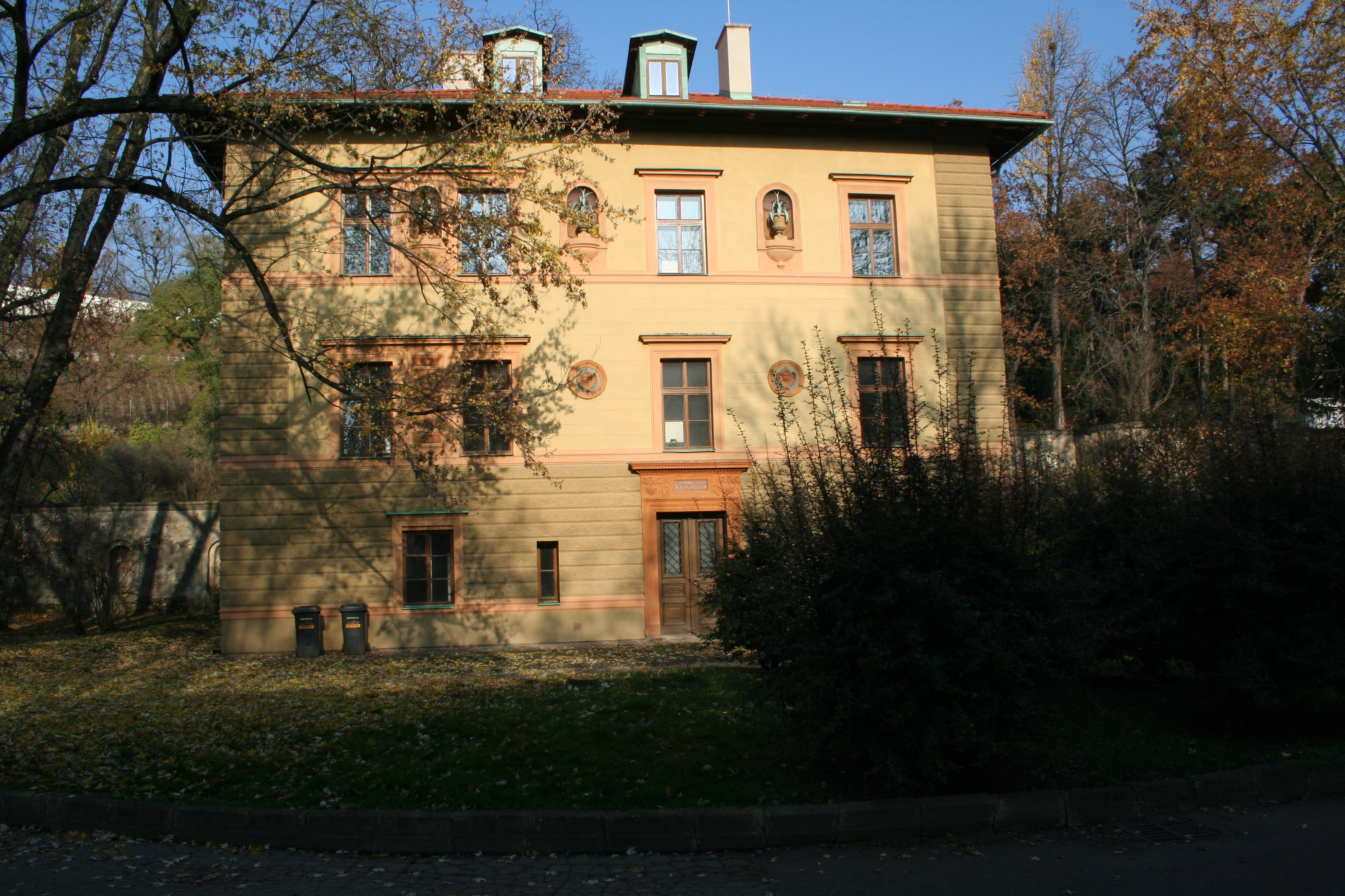 Prague, Grebovka, Dolni Landhauska Česky: Praha, Grébovka, Dolní Landhauska